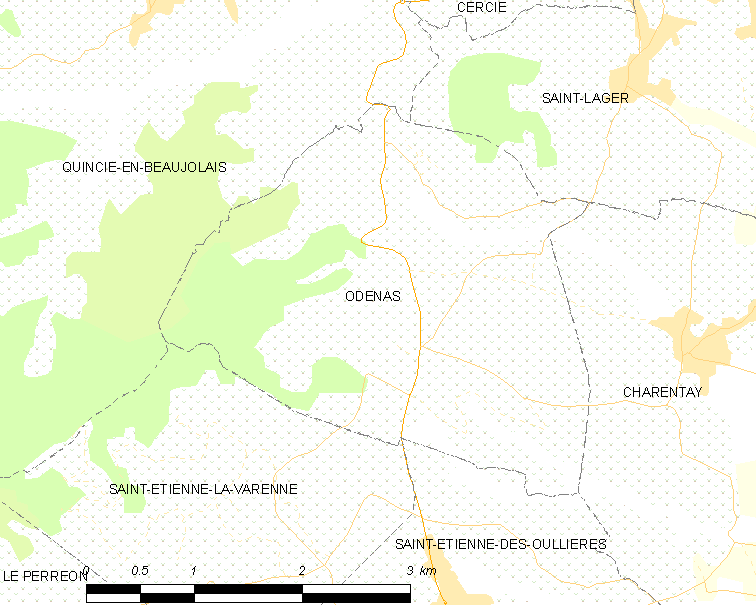 Map of French municipality